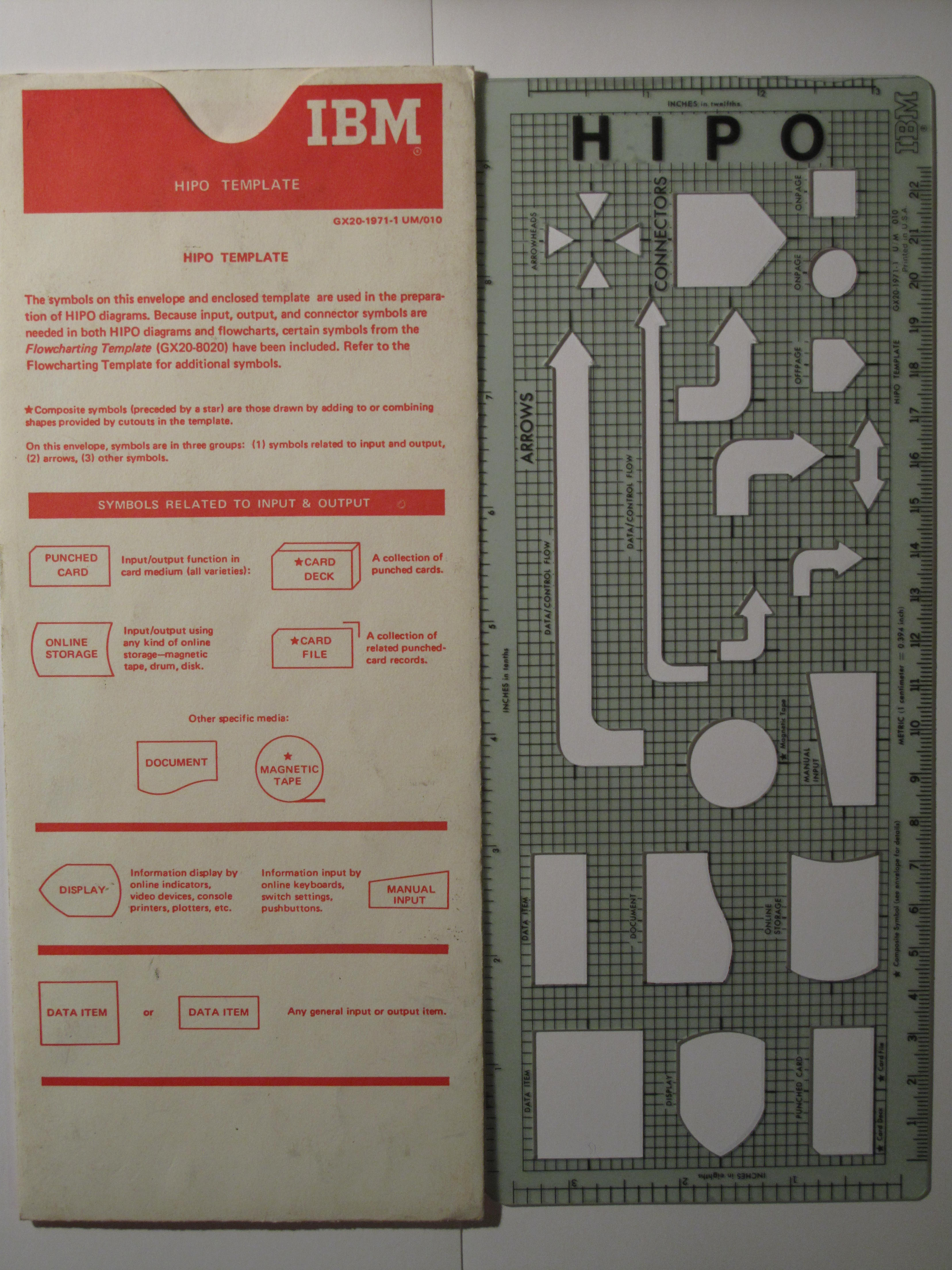 Stencil IBM and its enveloppe for manual creation of flow charts on paper (HIPO method)